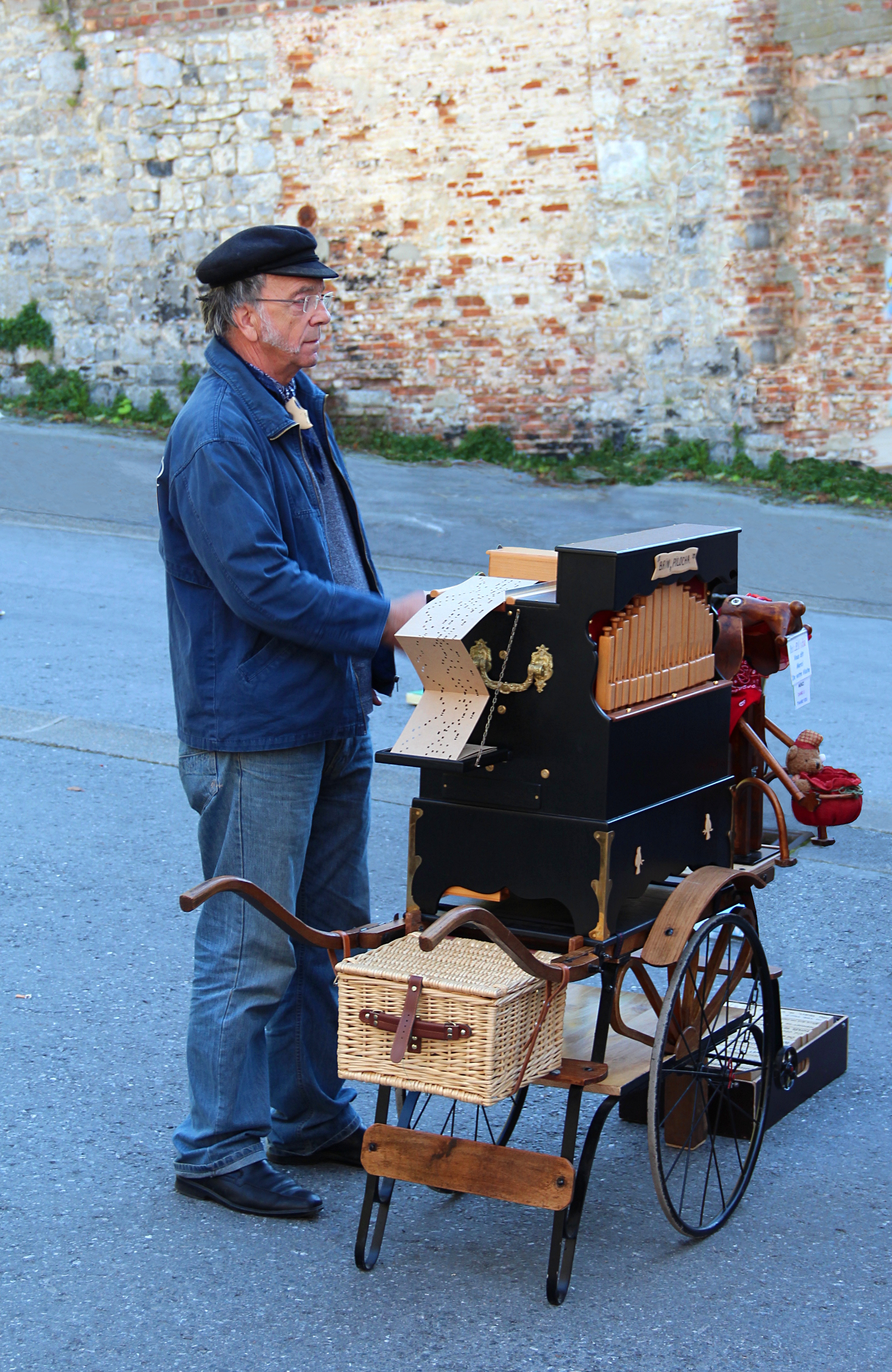 Barrel organ player in Dinant, (Belgium).